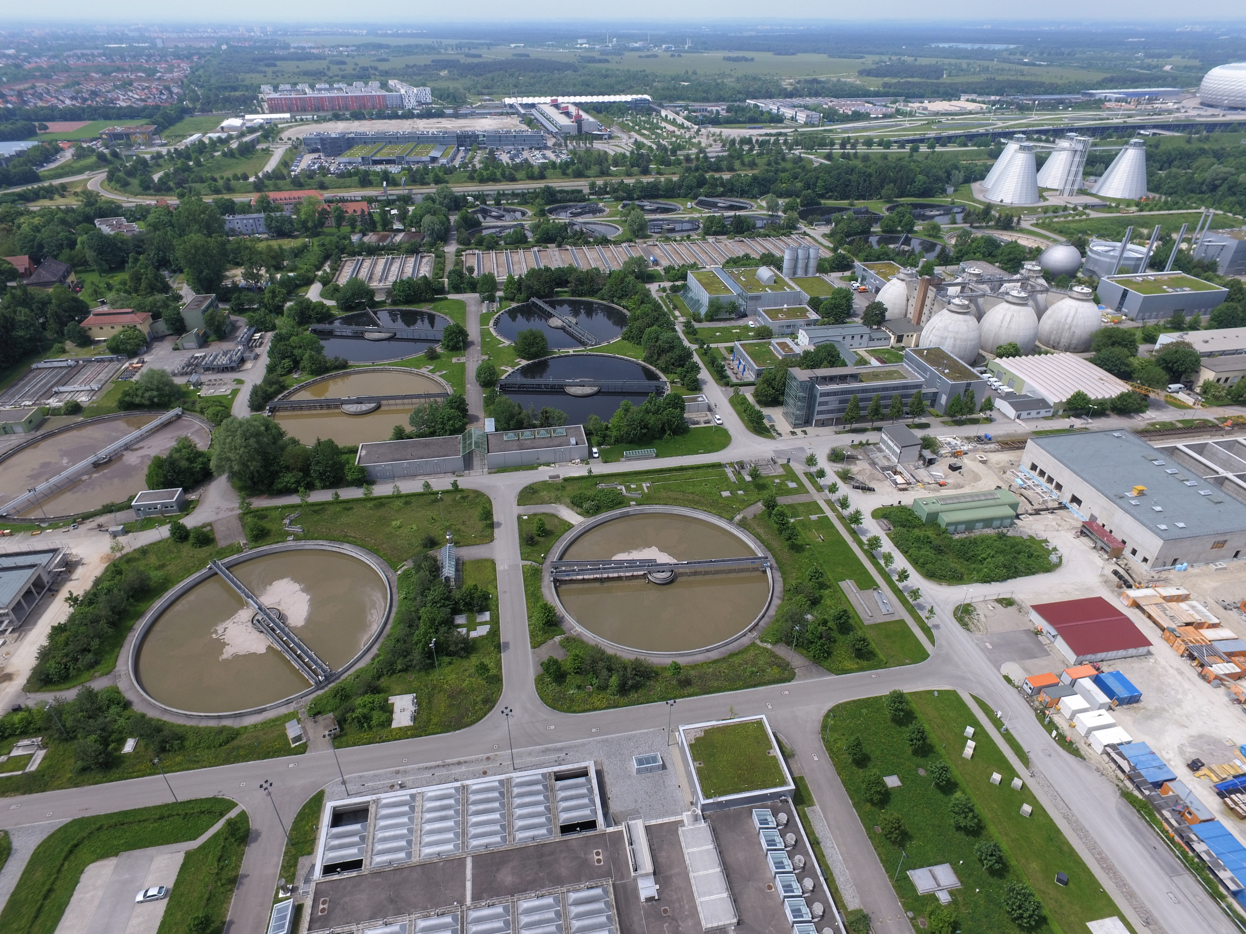 Aerial view of the wastewater treatment plant "Gut Großlappen" in Munich.